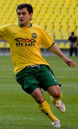 Alan Kasaev in action for FC Kuban